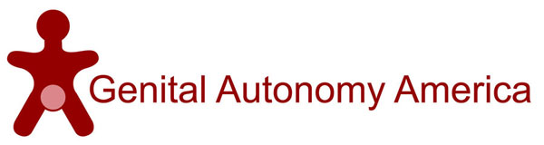 Genital Autonomy America logo